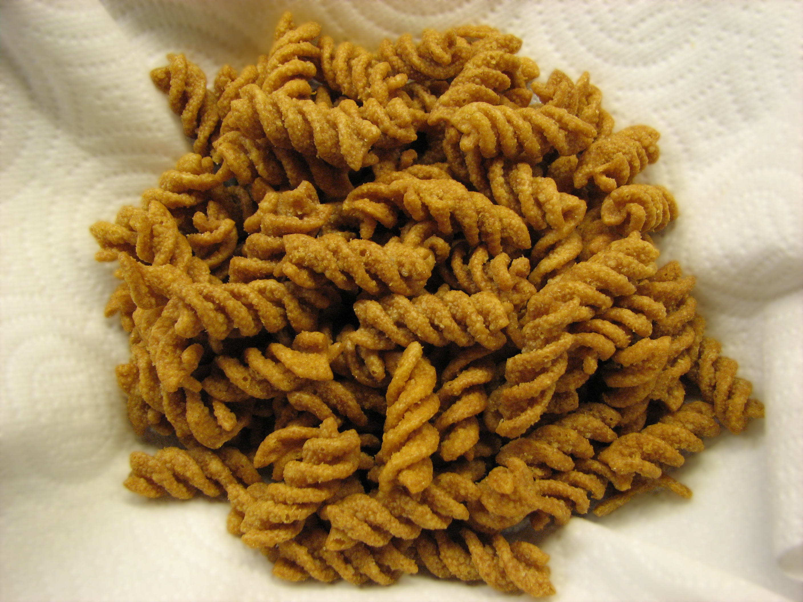 Grill flavored version of the Israeli snack, Bissli.